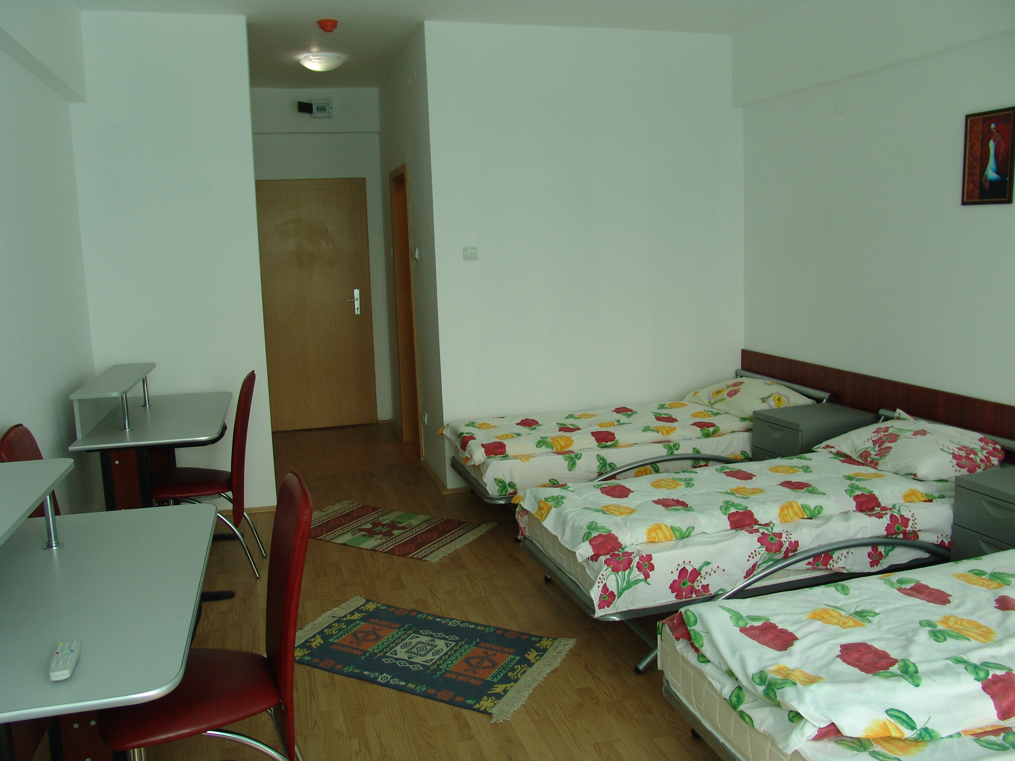 Camera Camin 3 locuri - Universitatea Valahia din Târgoviște (UVT)